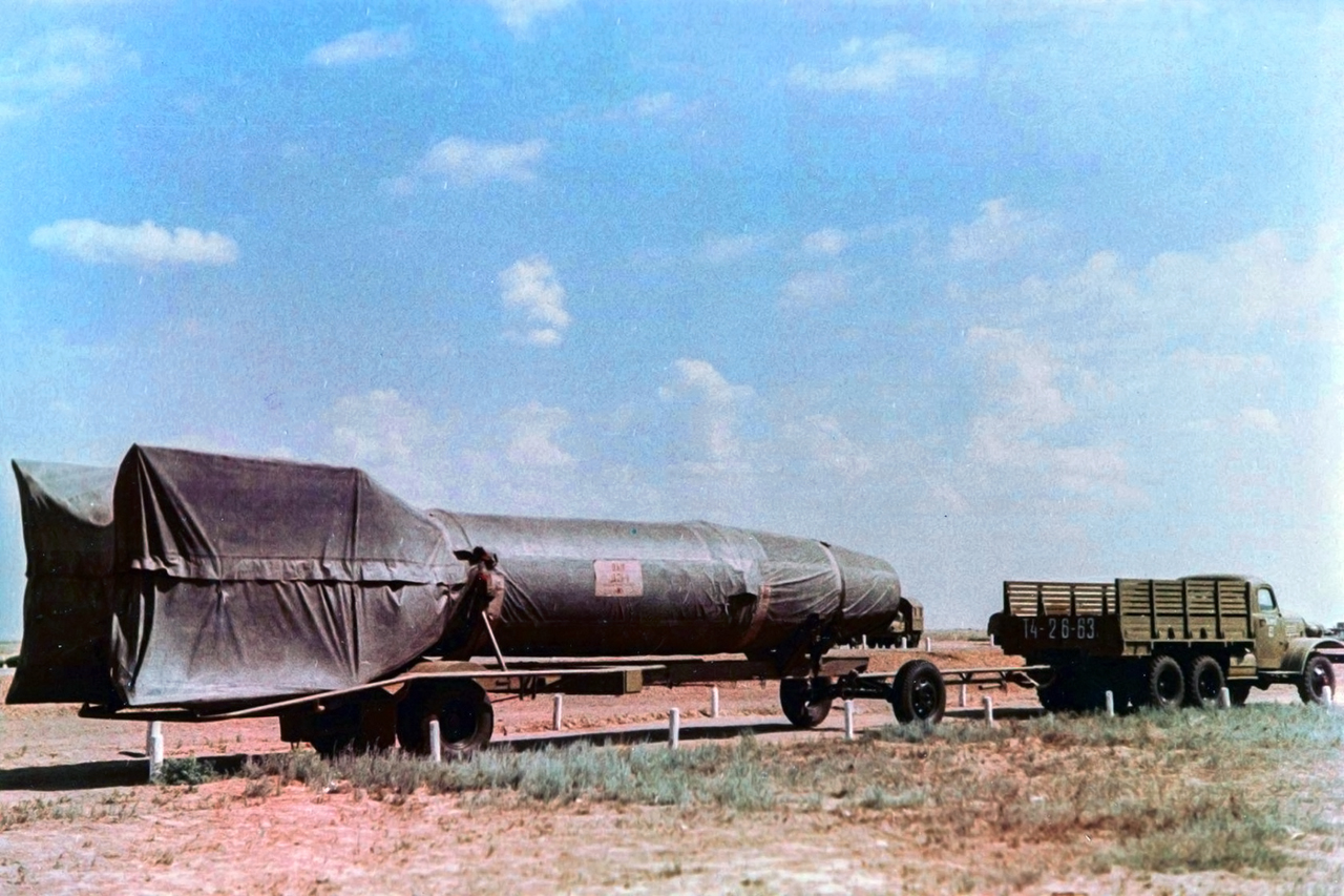 The first A4 rocket (from German stocks) is transported to the launch site on a truck trailer. It was launched on 18 October 1947 from the Kapustin Yar test site. It flew 206.7 km and deviated left for 30 km.